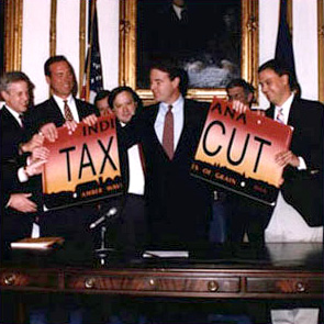 As Governor, Bayh implemented a $1.6 billion tax cut, the largest in state history